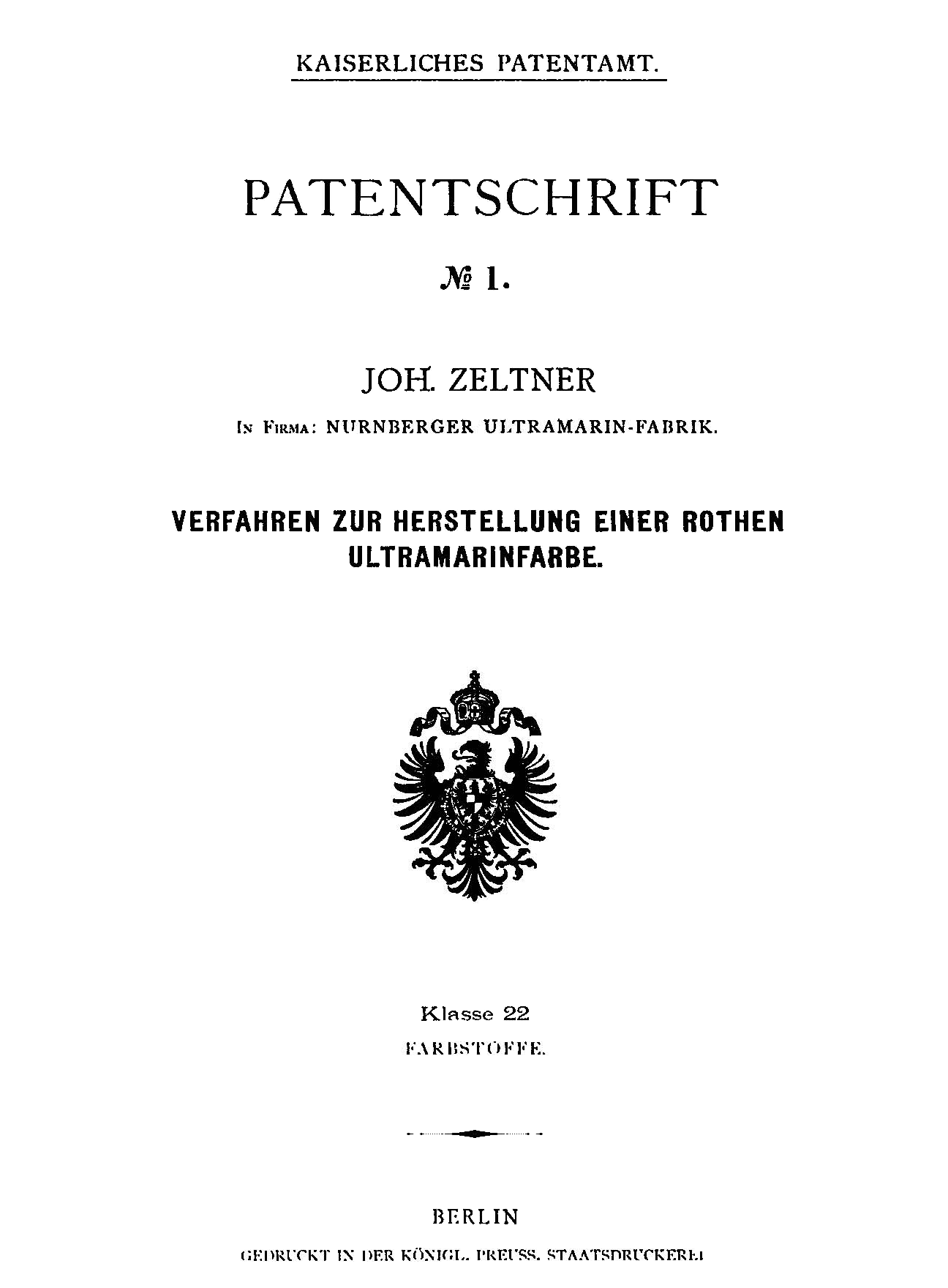 Titelpage of the first German patent from 1877 about preparing of the color ultramarine (version with removed spots of original scan)